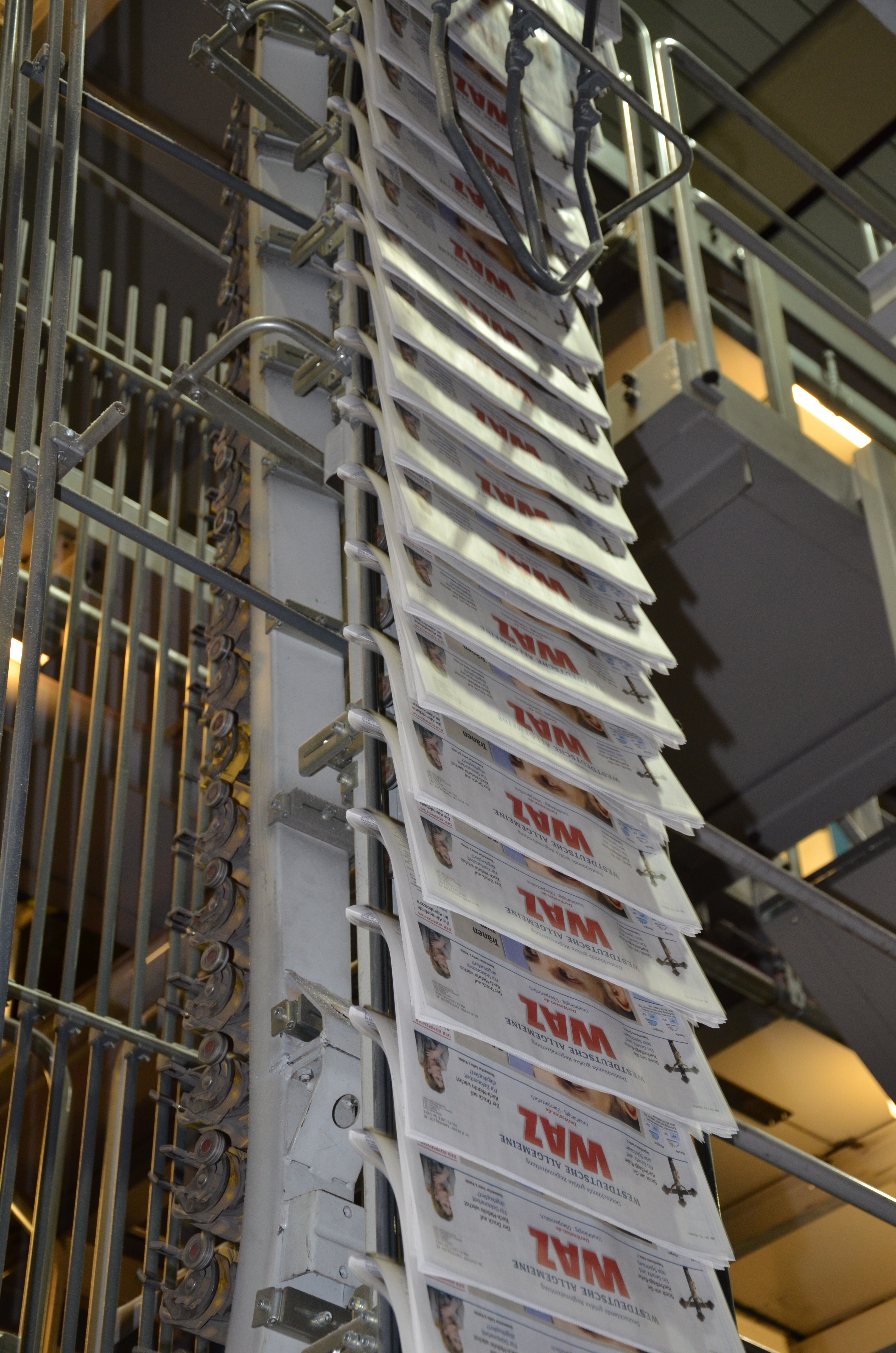 In the printing house of WAZ-company